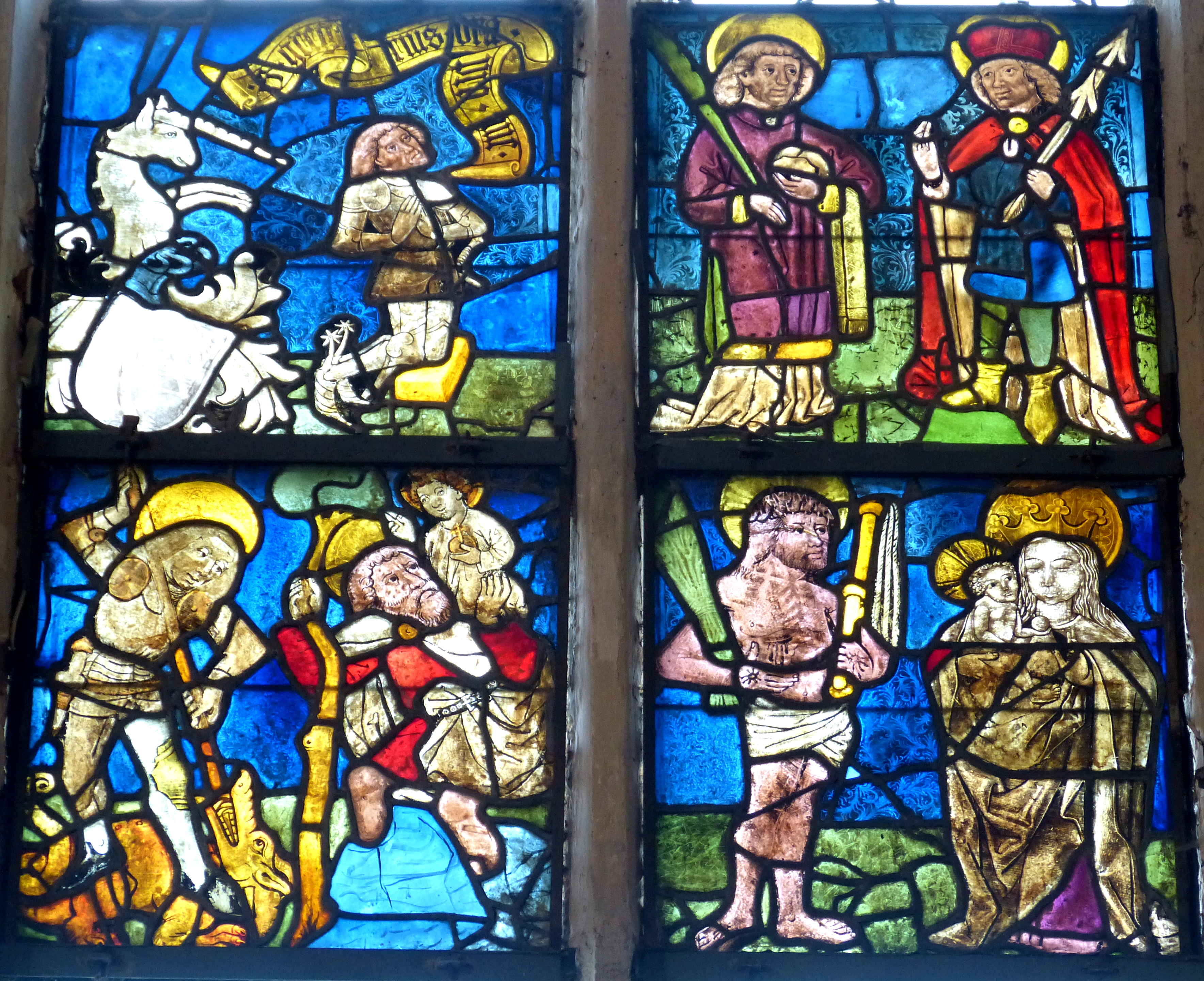 Grongörgen ( Lower Bavaria ). Saint Gregory church: Stained glass window ( 1470s ) in the northern wall.